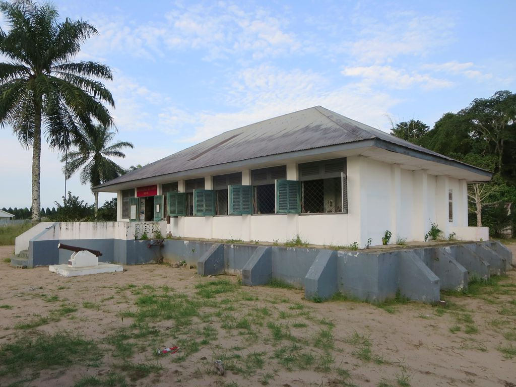 The Ma-Loango Regional Museum in Diosso, north of Pointe-Noire, Republic of Congo, was once the residence of Ma Moe Loango Poaty III, king of the Kingdom of Loango from 1931 to 1975.